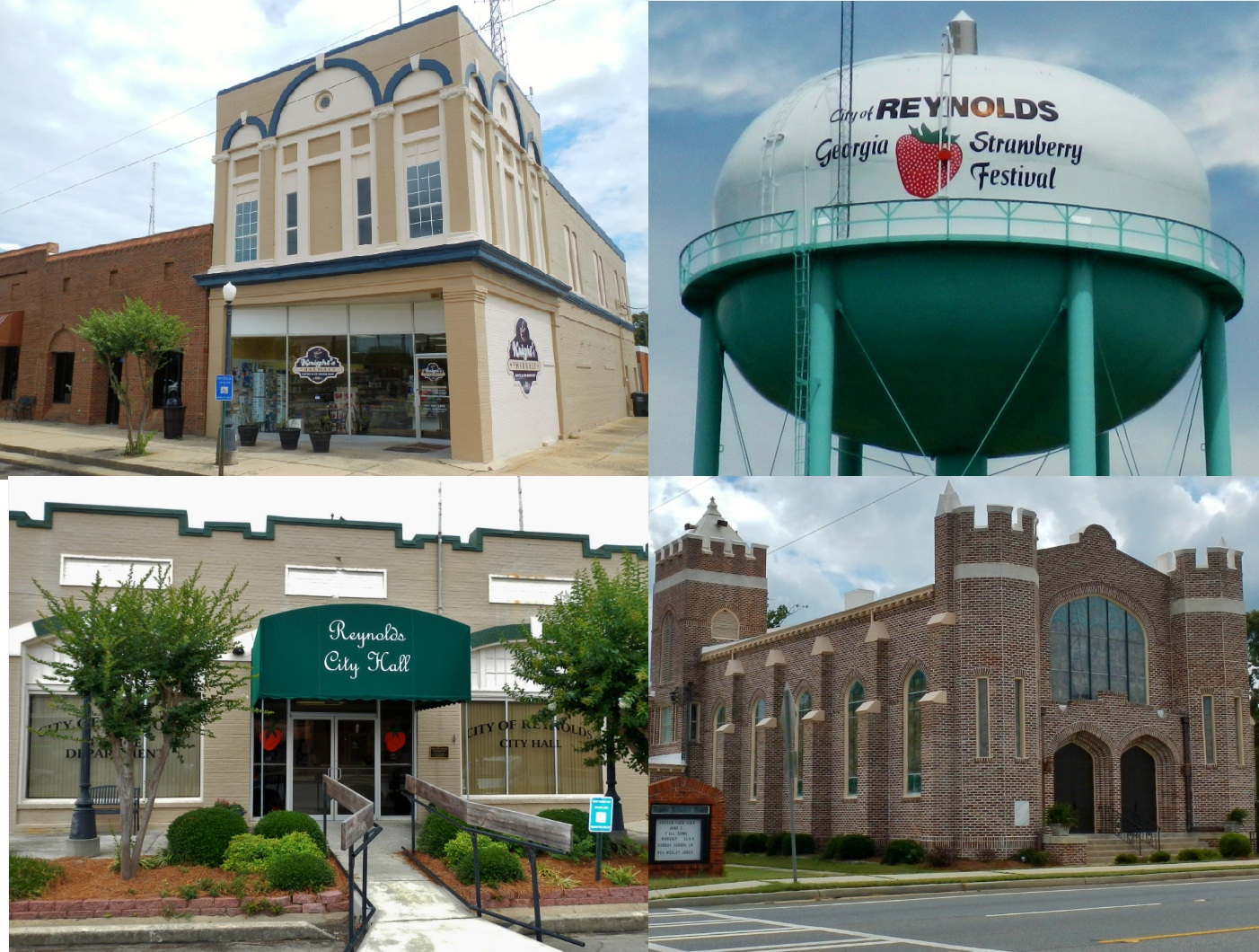 This is a photo collage of Reynolds, GA. Clockwise from top right: Water tower, Reynolds Methodist Church, Reynolds City Hall, Knight's Pharmacy.